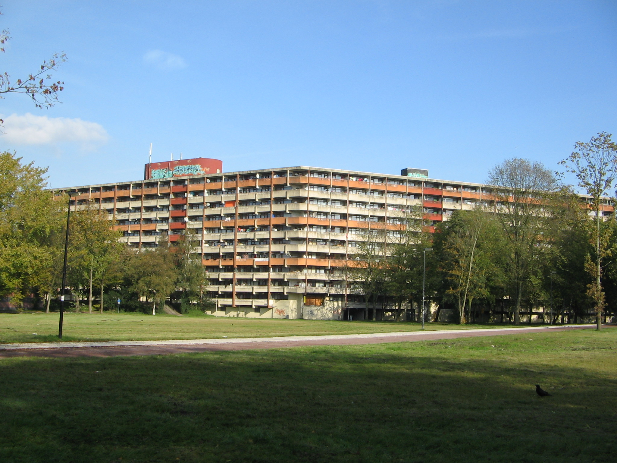 Block of flats Daalwijk, Amsterdam Zuidoost.